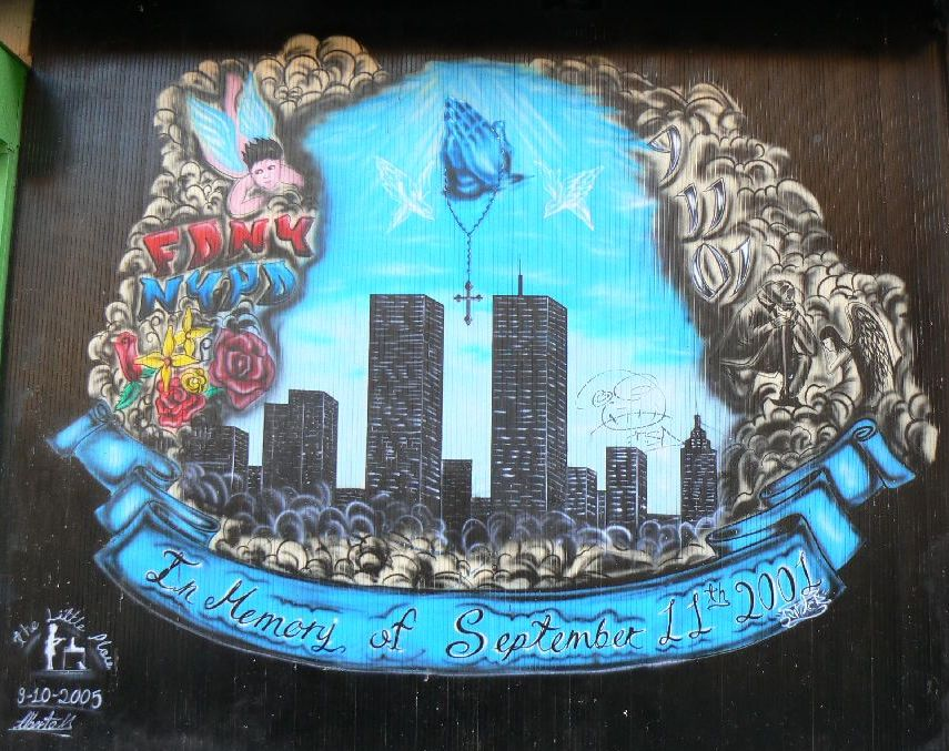 Graffiti "Memory of September, 11, 2001", WTC-Side, NYC